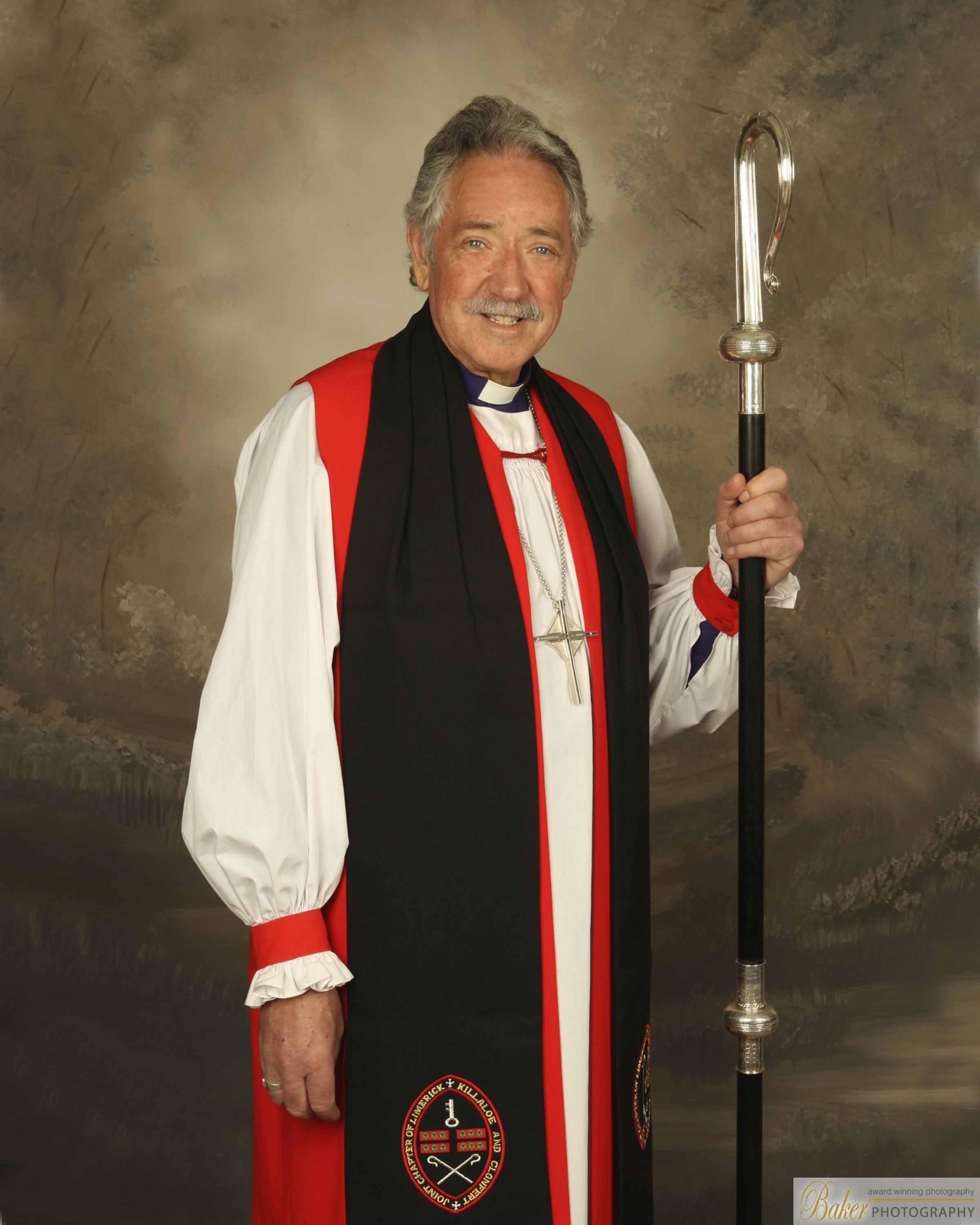 Bishop Trevor Williams photographed in Baker Photography in July 2014